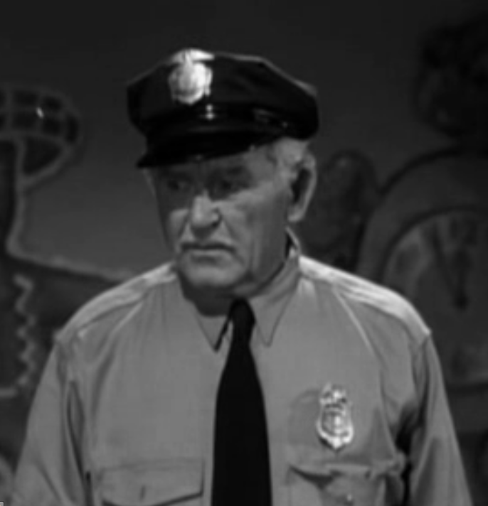 Still of Bud Osborne as the nightwatchman in the film Jail Bait (1954).